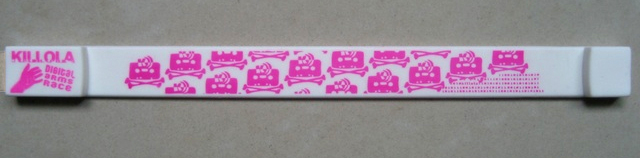 Limited Edition Killola USB flash-drive bracelet